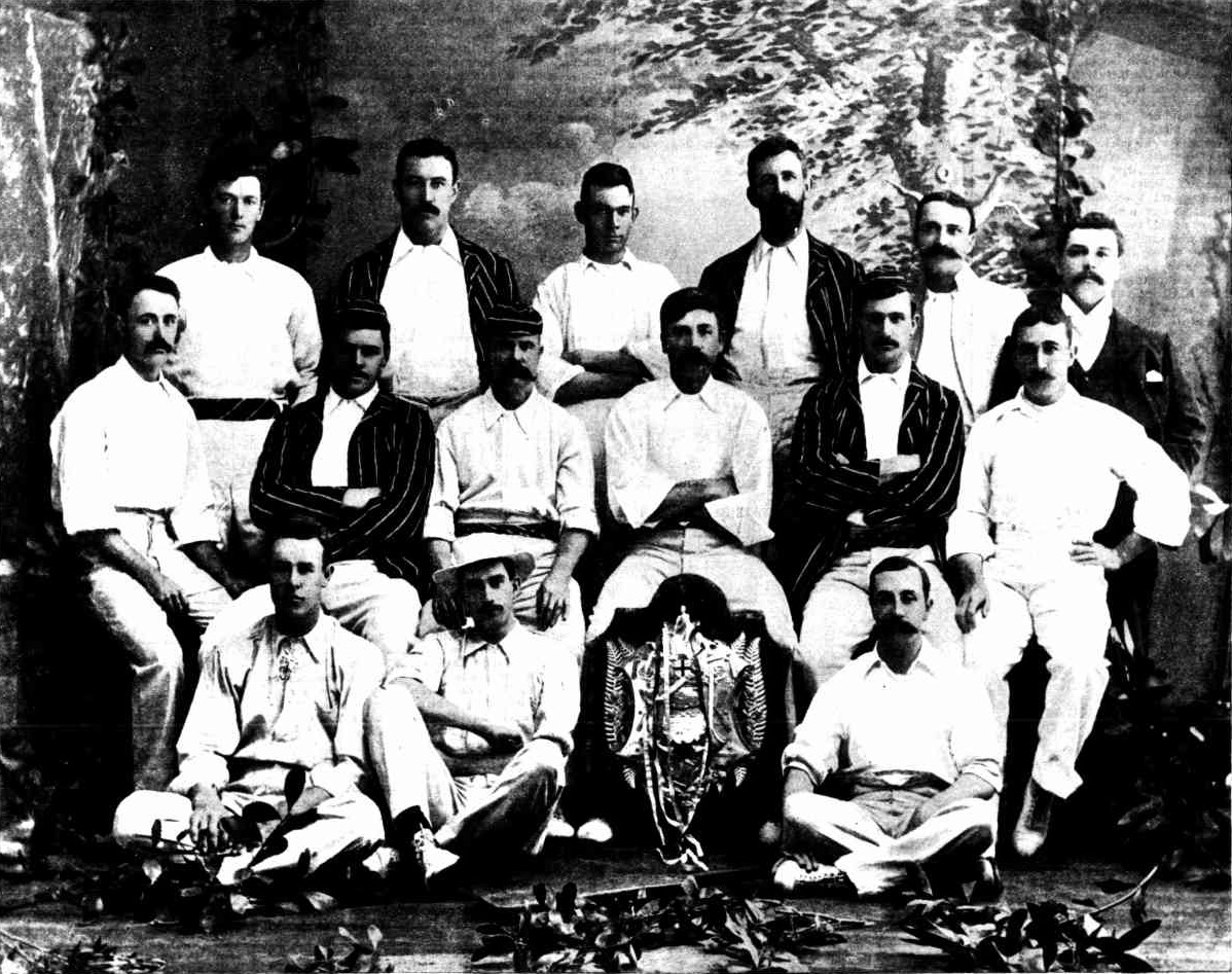 Paddington Cricket Club First XI, winners of the 1897/98 Hordern Shield. Alick Mackenzie is back row, second from left.